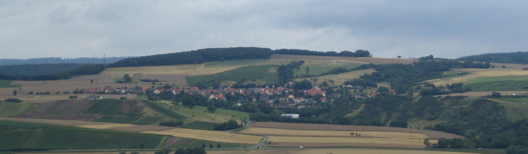 village Nußbaum near the Nahe river, Germany